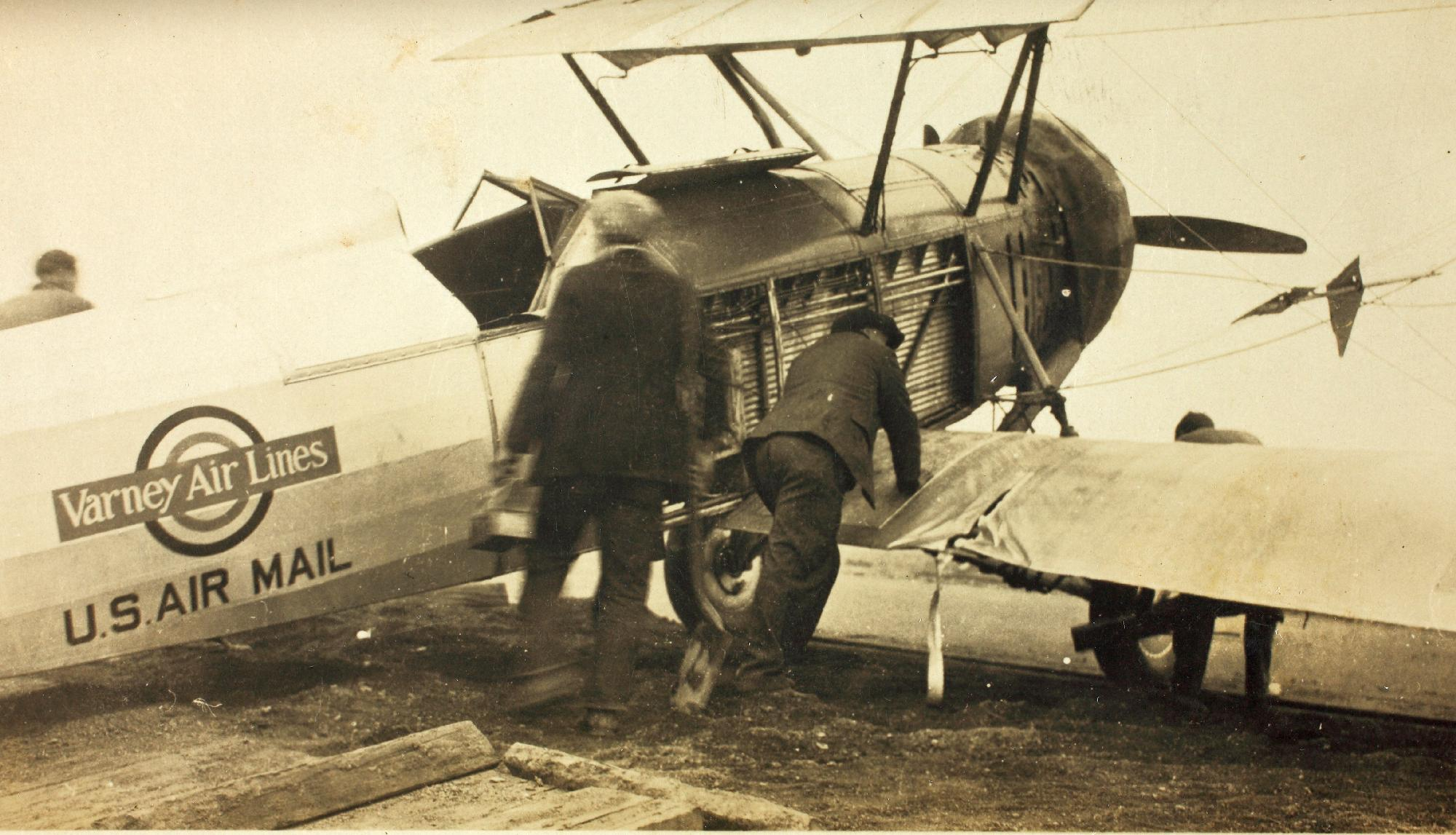 Stearman M-2 c.n 1001 NC9051 of Varney Air Lines (14) NC9051 after accident